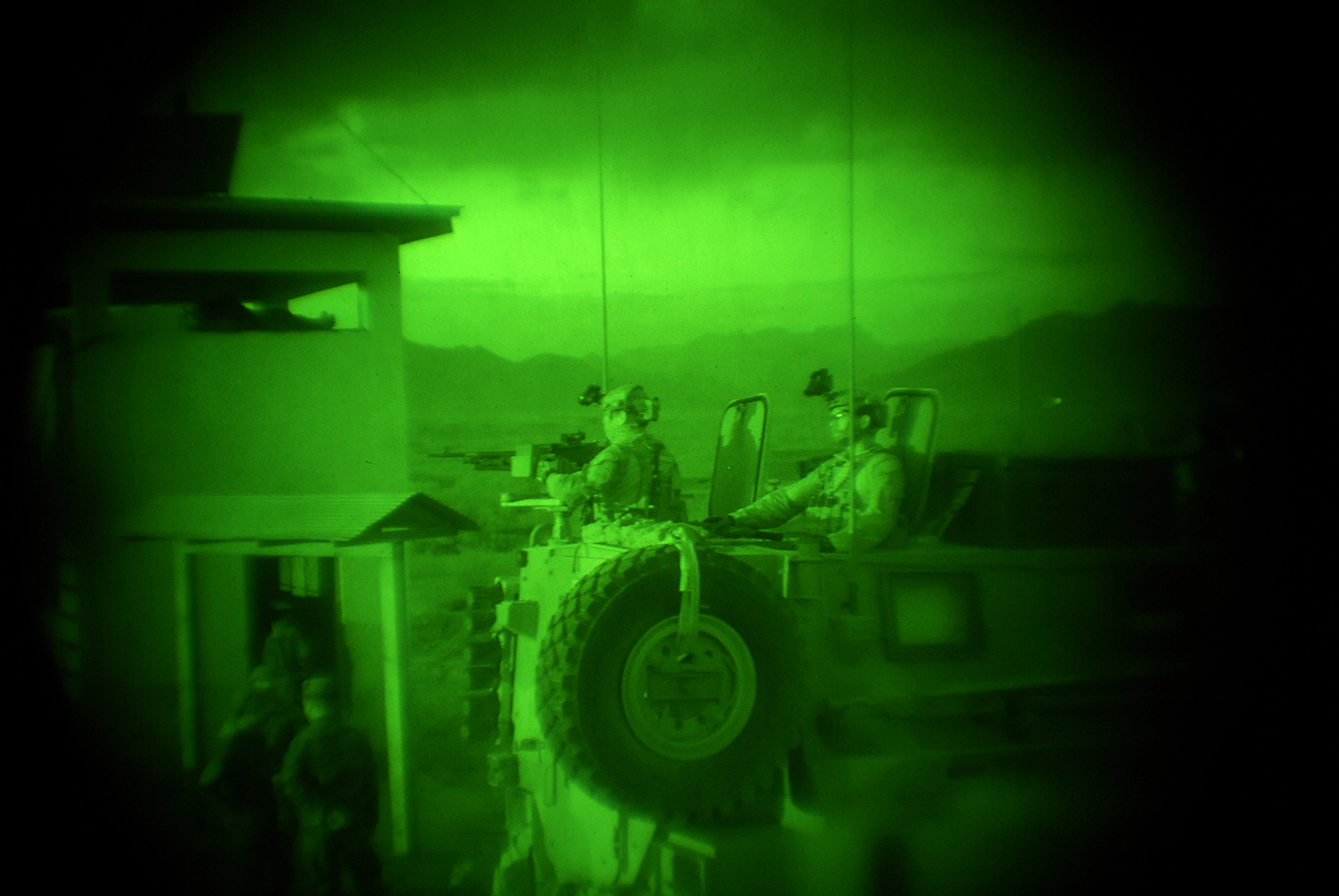 Australia's Special Operations Task Group (SOTG) provides security during a nighttime training validation exercise for Provincial Response Company - Uruzgan (PRC-U) in Tarin Kot, Afghanistan, April 27, 2013. SOTG have worked with PRC- U special police officers since 2005 and will soon turn over operations in Uruzgan Province. (U.S. Army photo by Sgt. Jessi Ann McCormick)